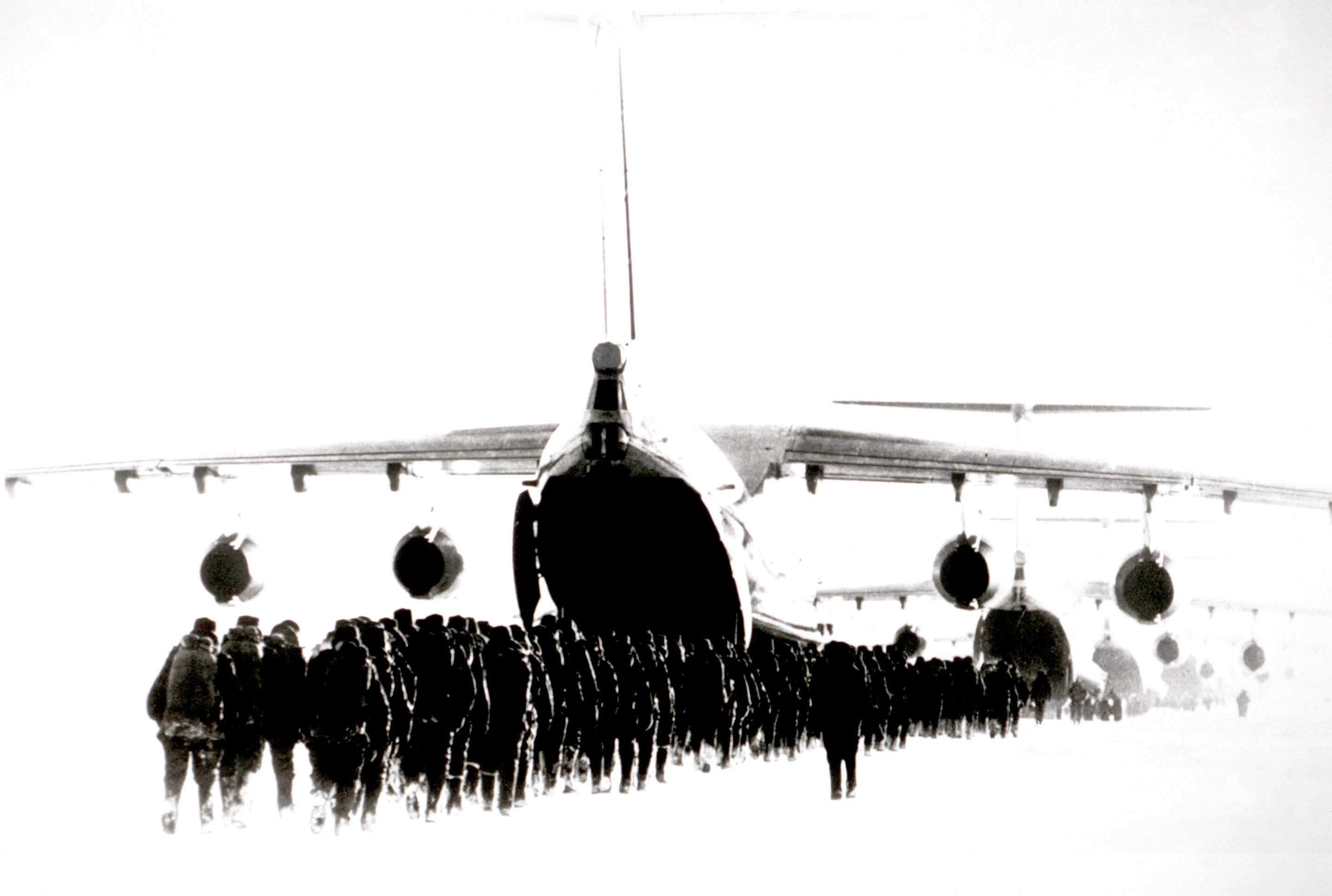 Ilyushin Il-76 Candid transport aircraft loading paratroops.